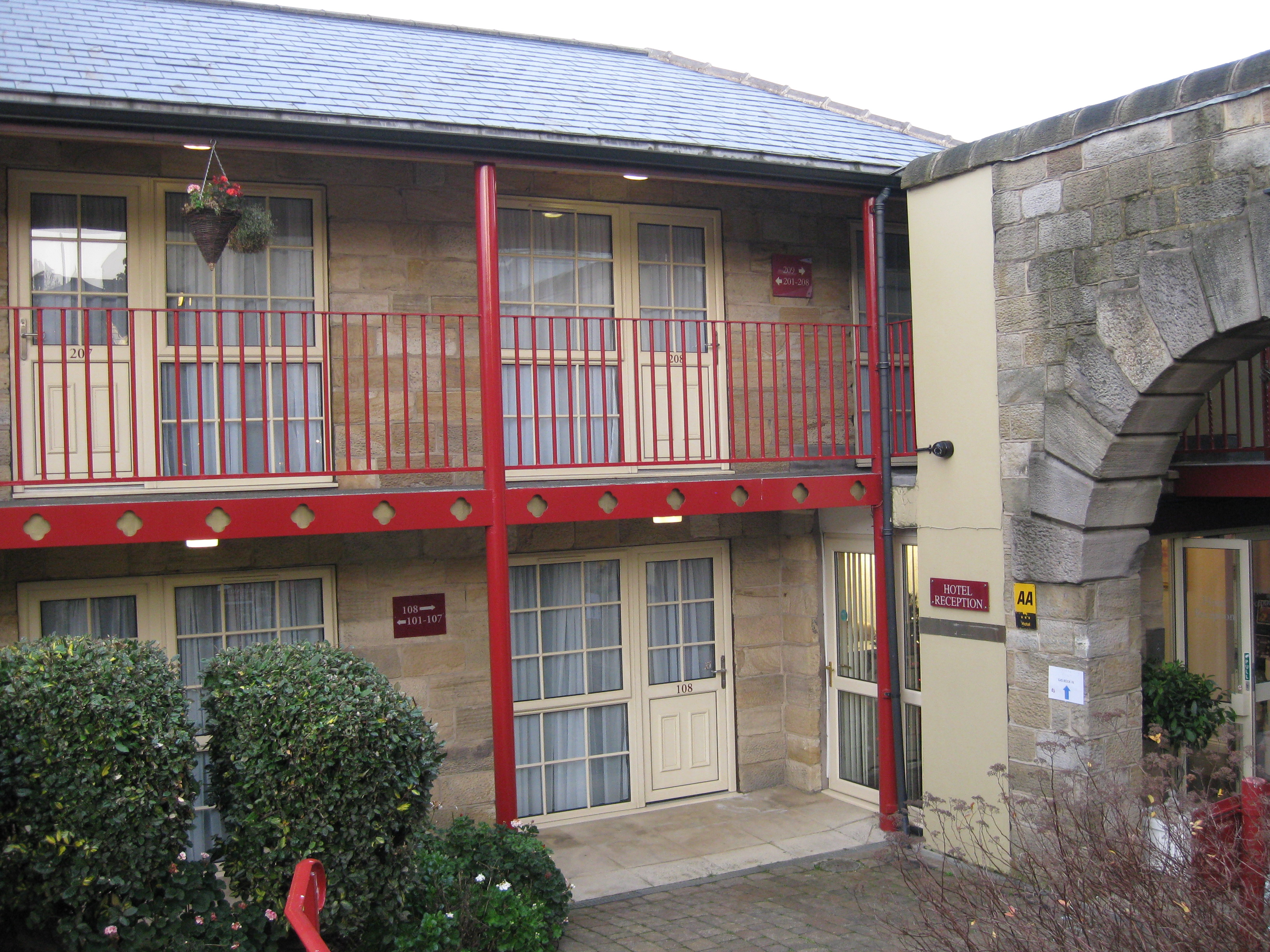 Garrison Hotel, Hillsborough Barracks, 635 Penistone Road Sheffield S6 2GB. Grade II listed building from 1854. The former military cells now converted to individual hotel rooms. Hotel reception to right.